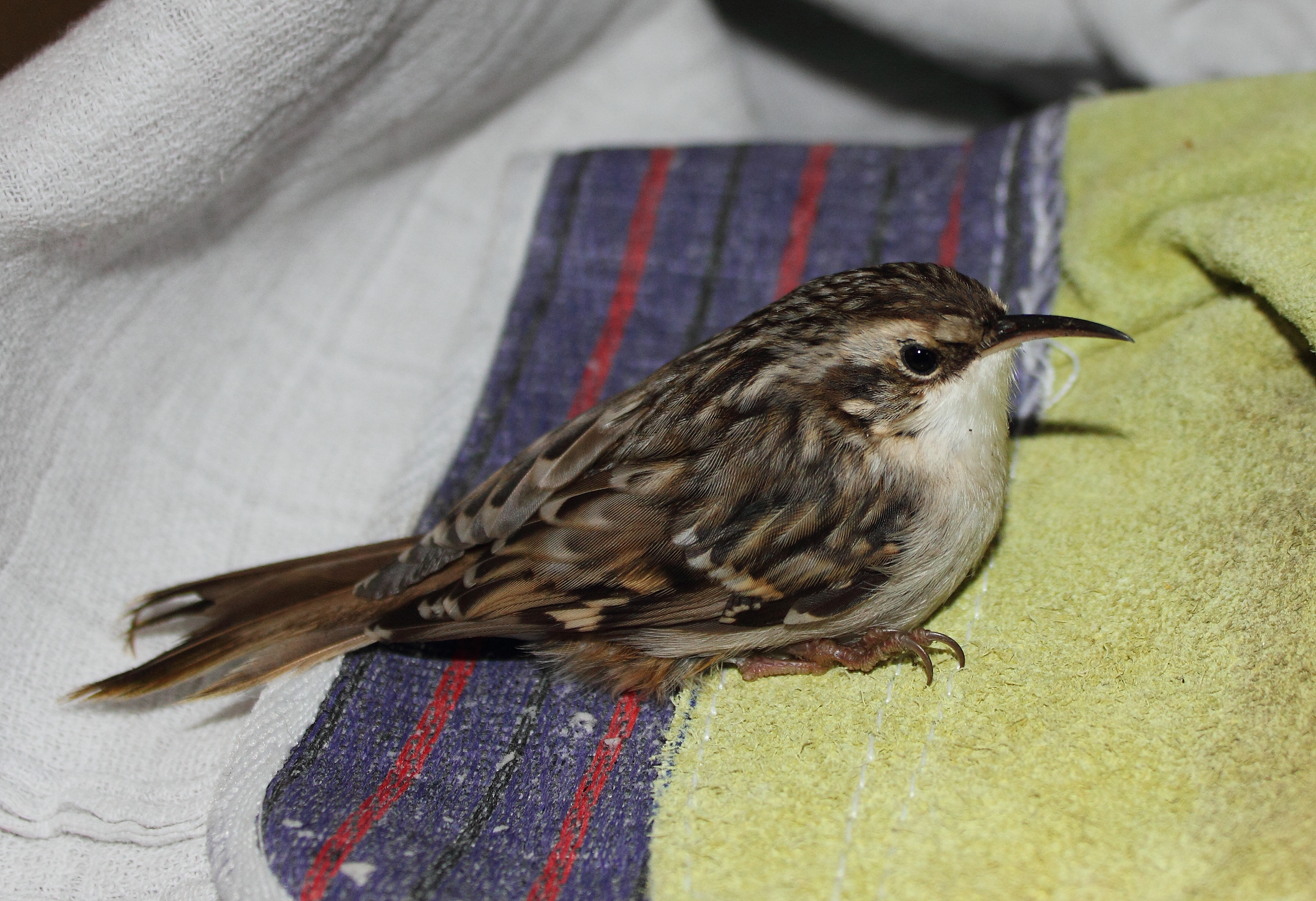 Certhia familiaris from Styria, Austria